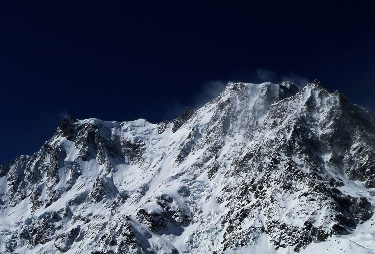 Eastern wall of Dufourspitze